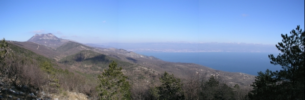 Mountain Učka in Istria